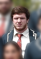 Nurmagomed Gadzhiyev